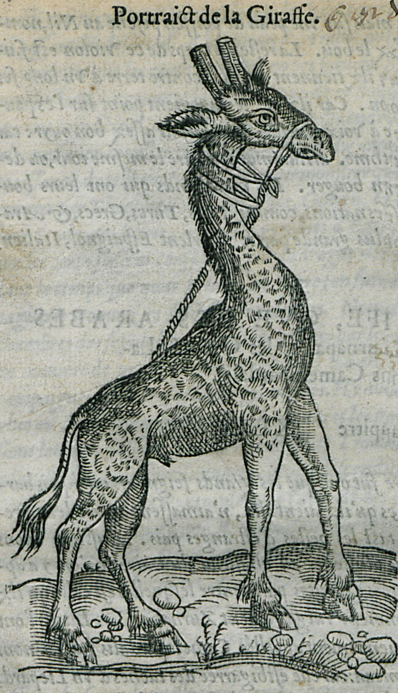 Pierre Belon. Les observations de plusieurs singularitez & choses mémmorables, trouvées en Grèce, Asie, Judée, Égypte, Arabie, aux autres pays étrangers, Paris, Guillaume Cavellat & Gilles Corrozet, 1554.